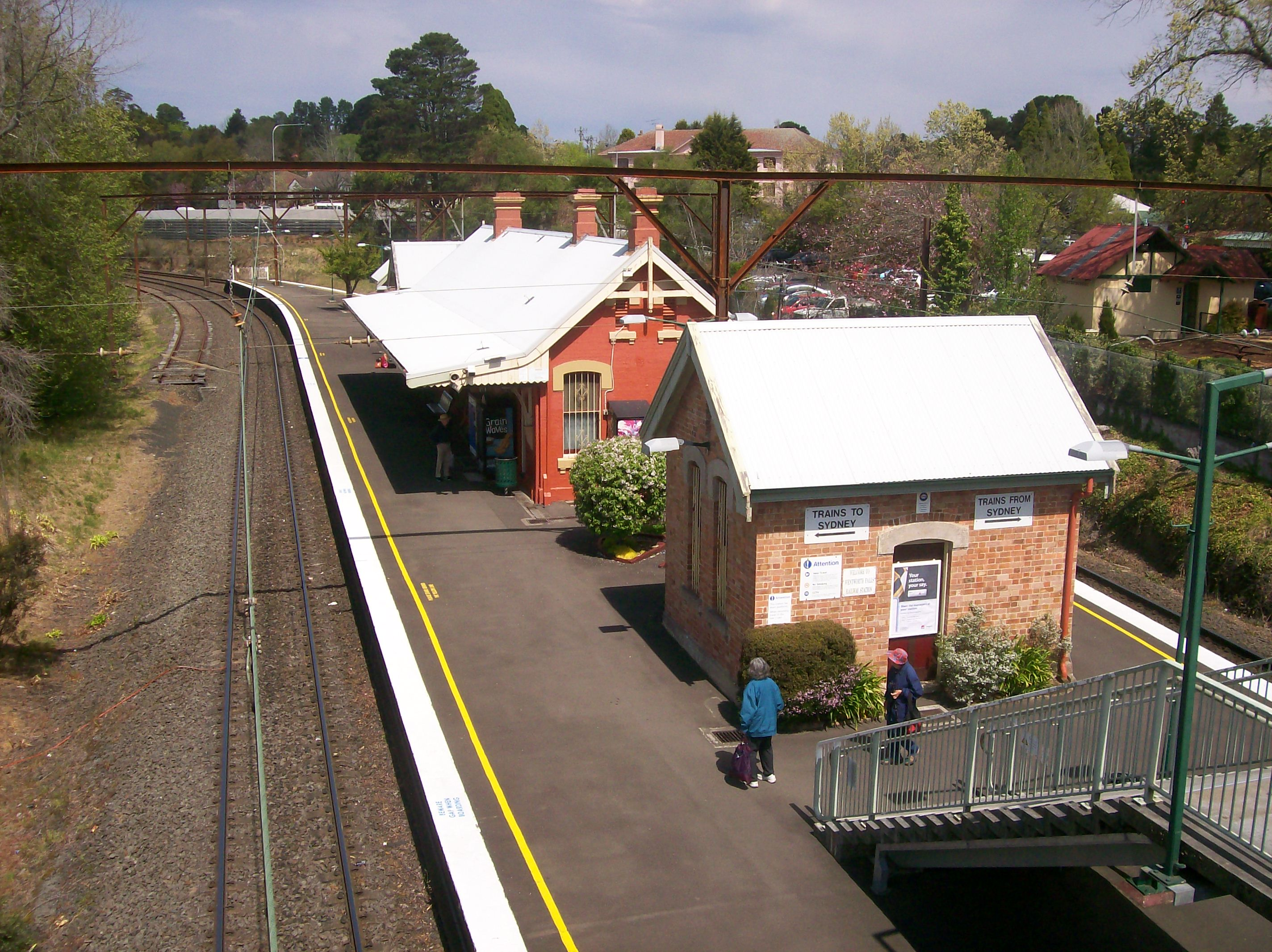 Wentworth Falls railway station